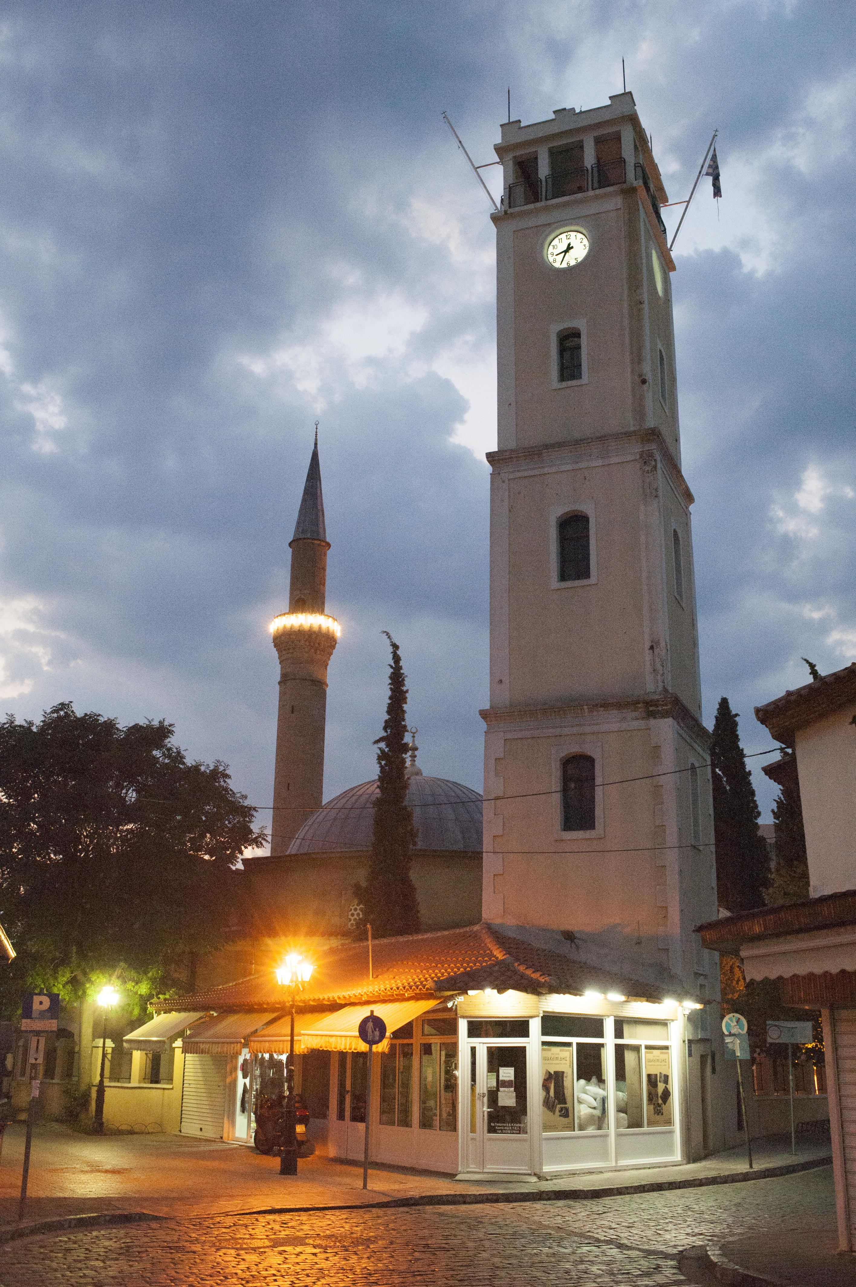 Yeni Mosque and Ottoman Clock Tower, Komotini, West Thrace, Greece.